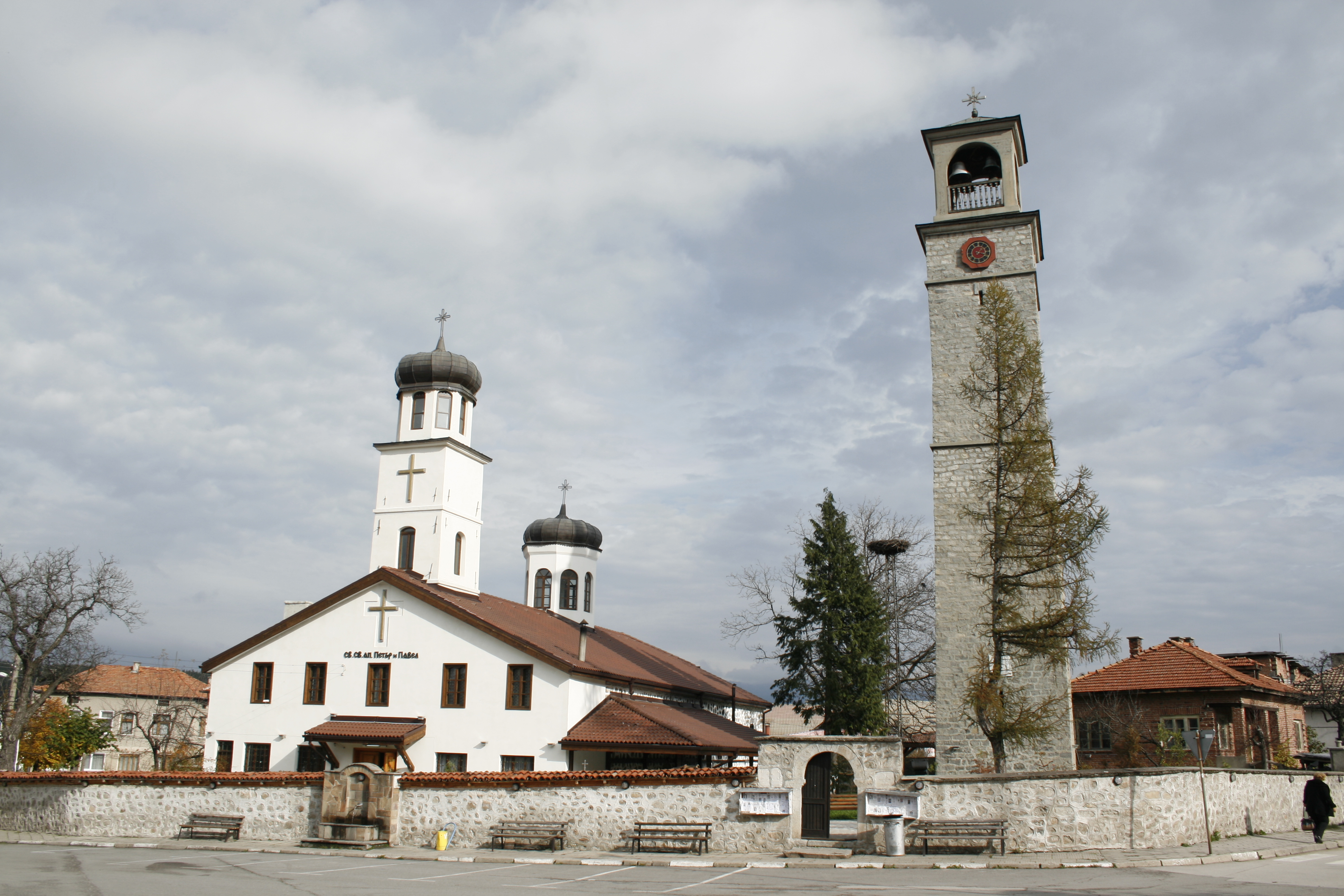 curkvata sv.sv.ap. Petar i Pavel